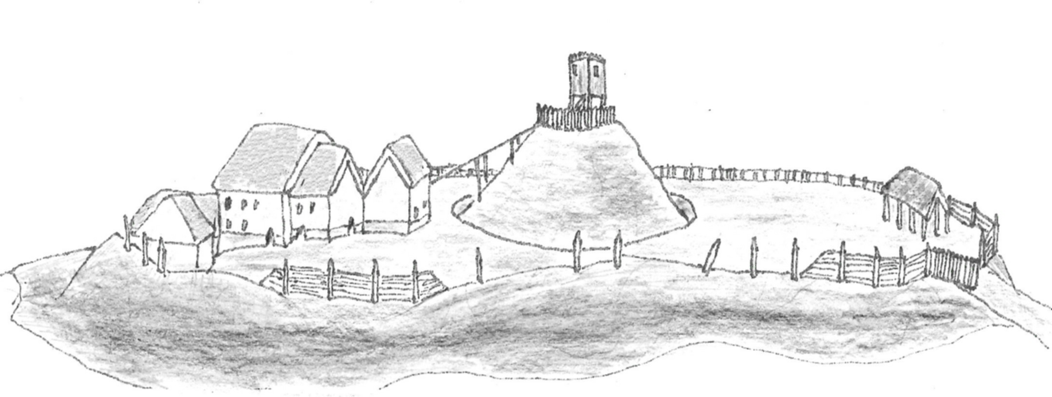 Motte and bailey castle at Olivet a Grimbosq, after design in Chateau Gaillard, XX, p.93